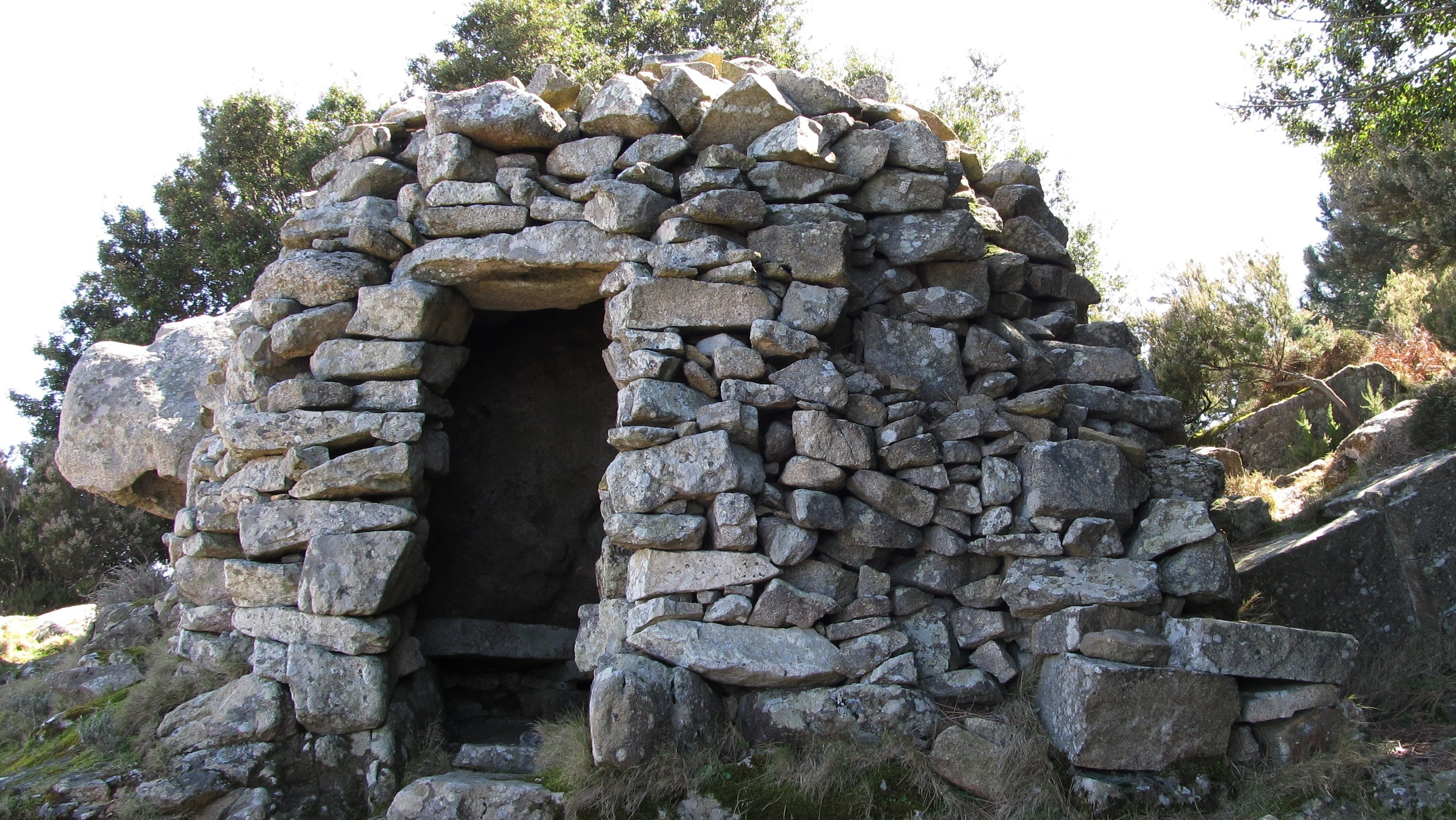 Elba island